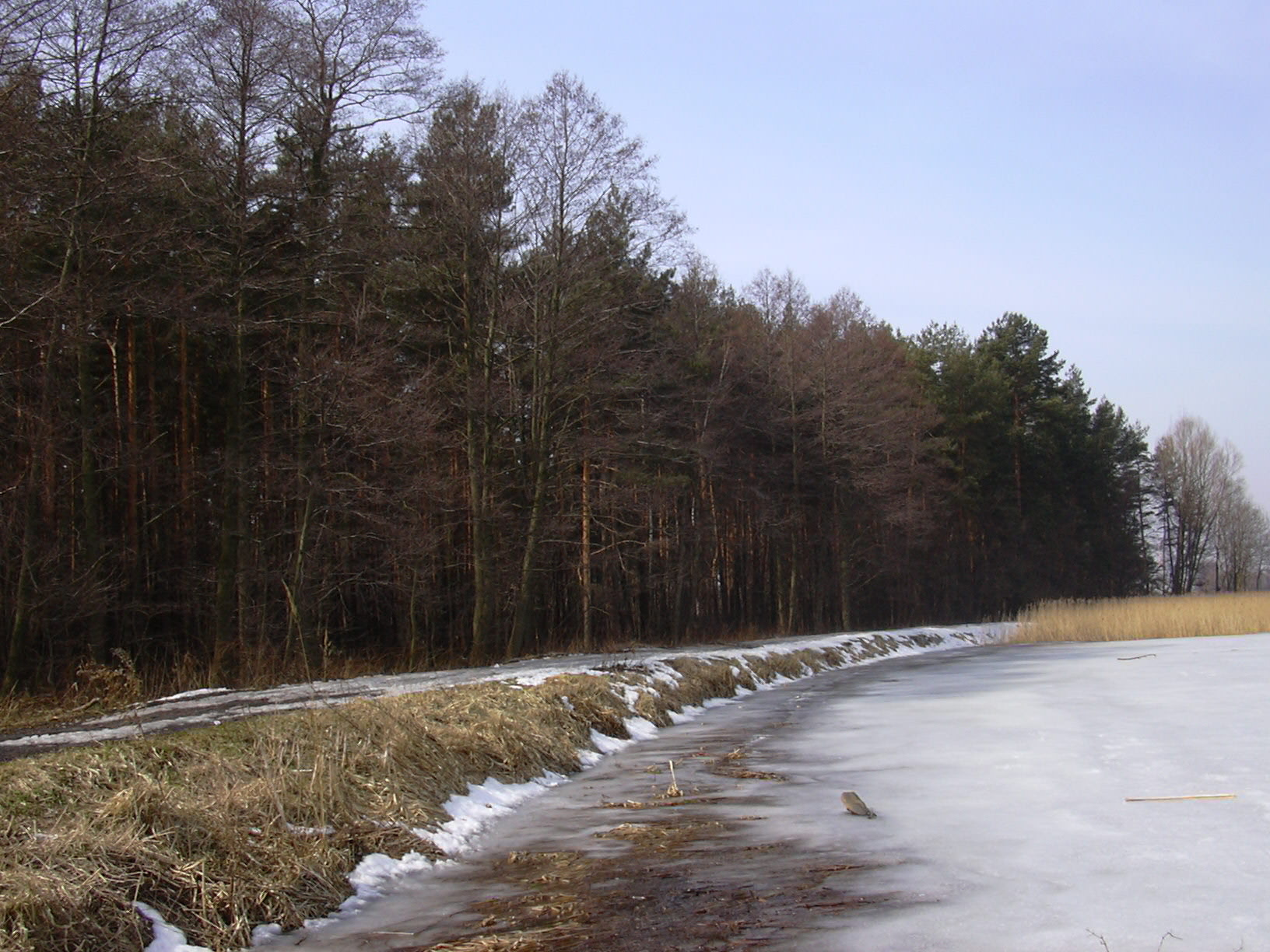 Wyry - Wici Lake